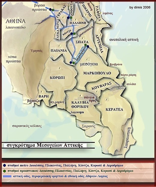 Map Created for Mesogeian Plain, Attica, Greece